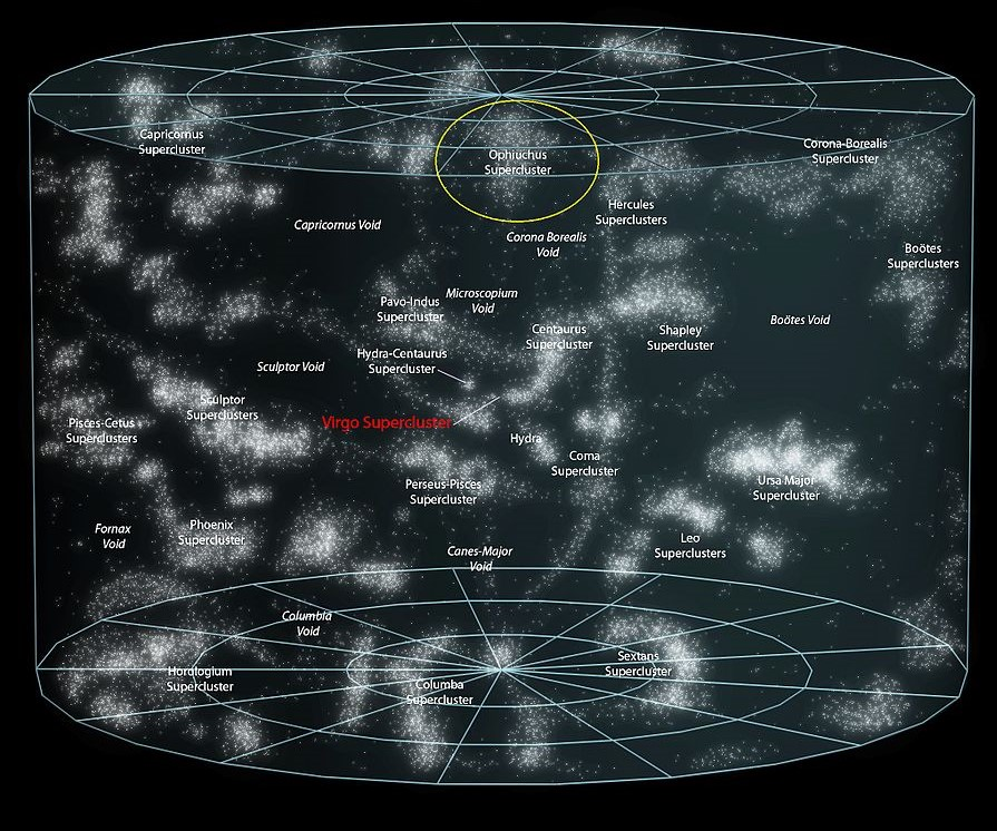 Ophiuchus supercluster (yellow circle)